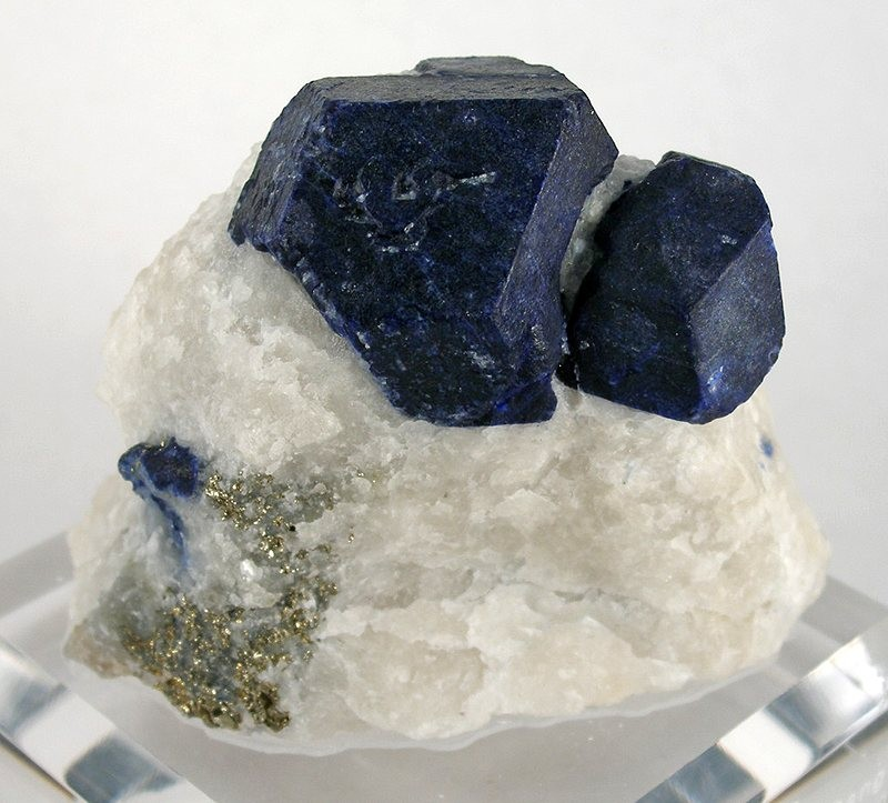 Lazurite Locality: Ladjuar Medam (Lajur Madan; Lapis-lazuli Mine), Sar-e-Sang District, Koksha Valley (Kokscha; Kokcha), Badakhshan (Badakshan; Badahsan) Province, Afghanistan (Locality at ) Size: 7.5 x 5.9 x 3.9 cm. Perched high on a white marble matrix with some minor pyrite, are two equant, well formed crystals of royal blue lazurite, the larger crystal measuring 3.5 cm across.